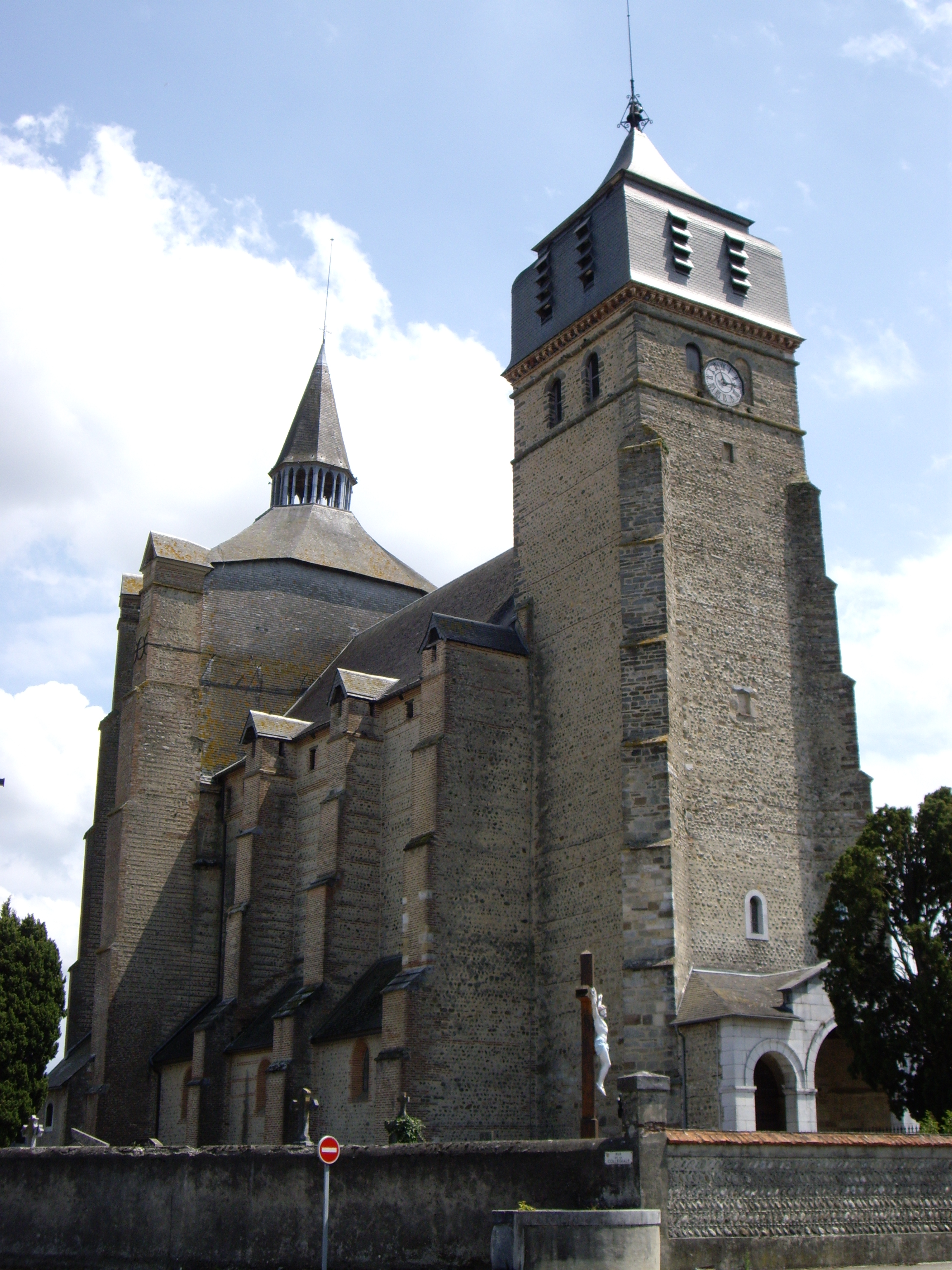 St. Lawrence Collegiate Church, Ibos, Hautes-Pyrénées, France